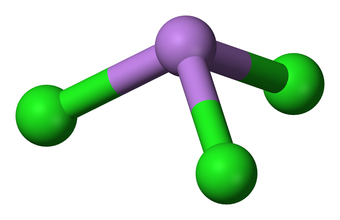 Ball-and-stick model of the arsenic trichloride molecule, AsCl3